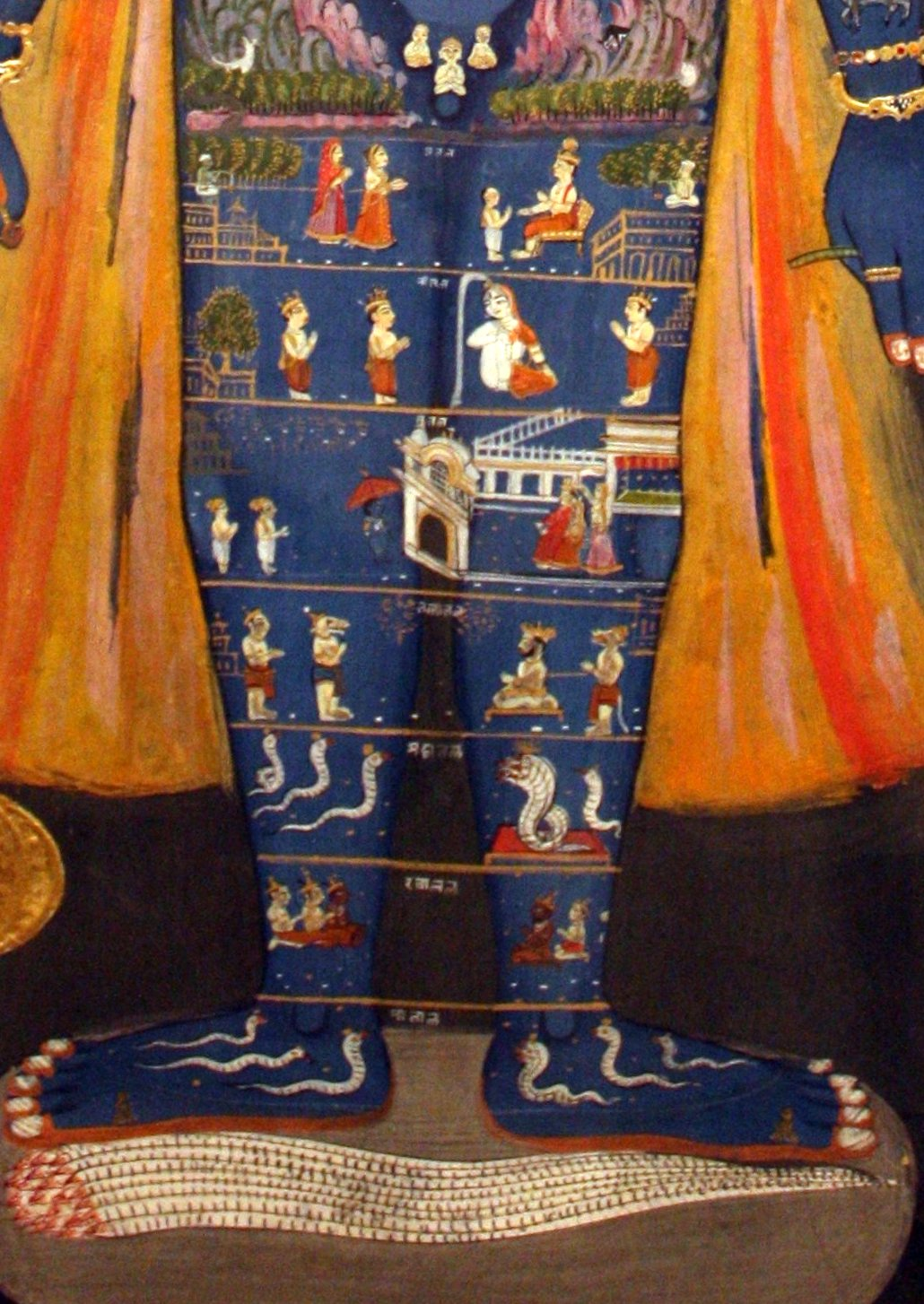 The legs of Vishnu as the Cosmic Man (Vishvarupa) depict the earth and seven realms of the underground (names written in Devanagari) Opaque watercolour on paper Jaipur, Rajasthan c. 1800-50 Wikipedia Loves Art at the Victoria and Albert Museum This photo of item # IS.33-2006 at the Victoria and Albert Museum was contributed under the team name "va_va_val" as part of the Wikipedia Loves Art project in February 2009. Victoria and Albert Museum The original photograph on Flickr was taken by Val_McG—please add a comment to the original Flickr page whenever a use has been made on Wikipedia or another project. Project galleries on Flickr: this institution, this team